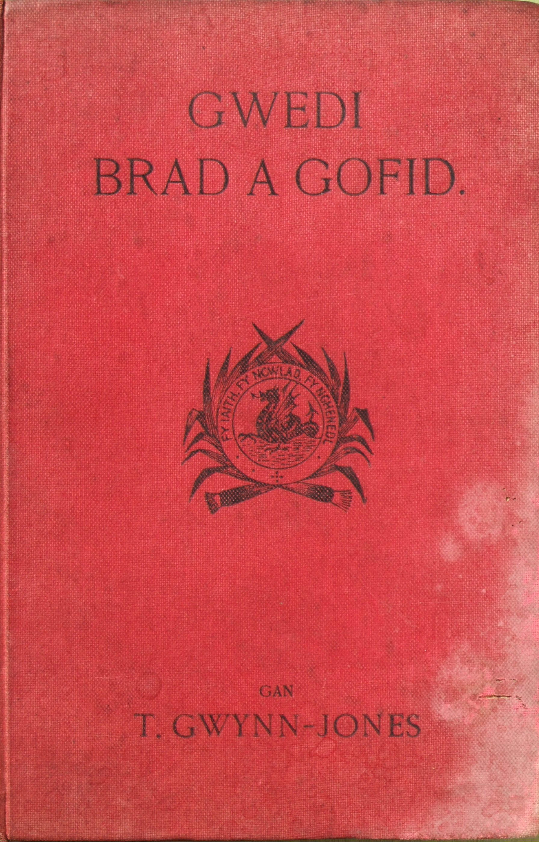 Front cover of Gwedi Brad a Gofid (Cwmni'r Wasg Genedlaethol Gymreig, Caernarfon, 1898), a Welsh-language novel by T. Gwynn Jones.